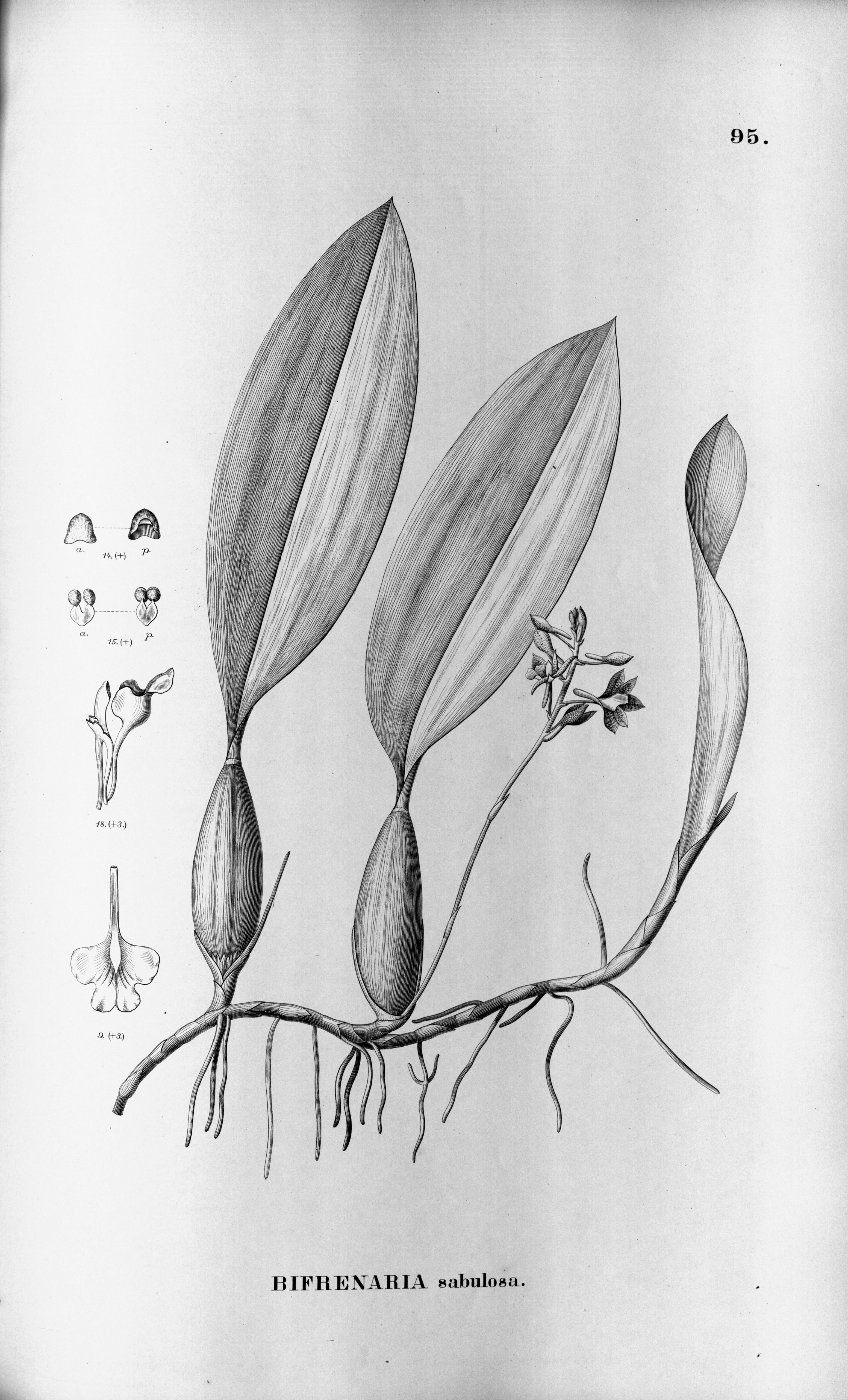 Illustration of Bifrenaria longicornis (as syn. Bifrenaria sabulosa)